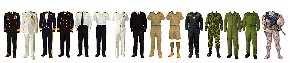 A range of uniforms of the Canadian Armed Forces, shown here on a Flight Surgeon assigned the Royal Canadian Navy uniform, with the rank of Lieutenant-Commander. From left to right: Ceremonial Dress No 1A and No 1C; Mess Dress No 2; Service Dress No 3, 3A, 3B (including black and summer white trousers), 3C, 3D (including trousers and shorts); Operational Dress No 5: Naval Combat Dress, CADPAT (Temperate Woodland), flying suit (one- and two-piece), CADPAT (Arid)